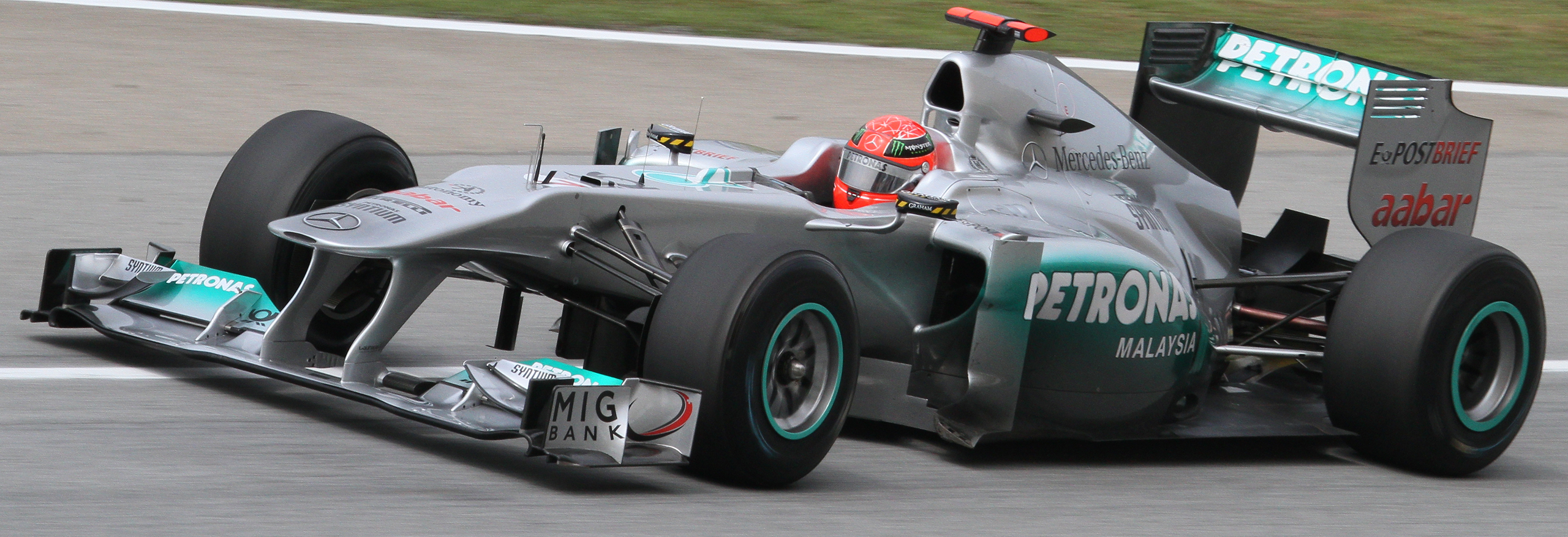 Formula One 2011 Rd.2 Malaysian GP: Michael Schumacher (Mercedes) during the first practice session on Friday.